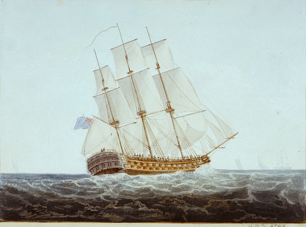 Watercolor of HMS Ajax (1798)